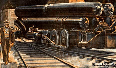 American compressed air locomotive used in boring the Rove Tunnel in France. This was losslessly cropped from Scientific American's front cover illustration 25 November 1916.